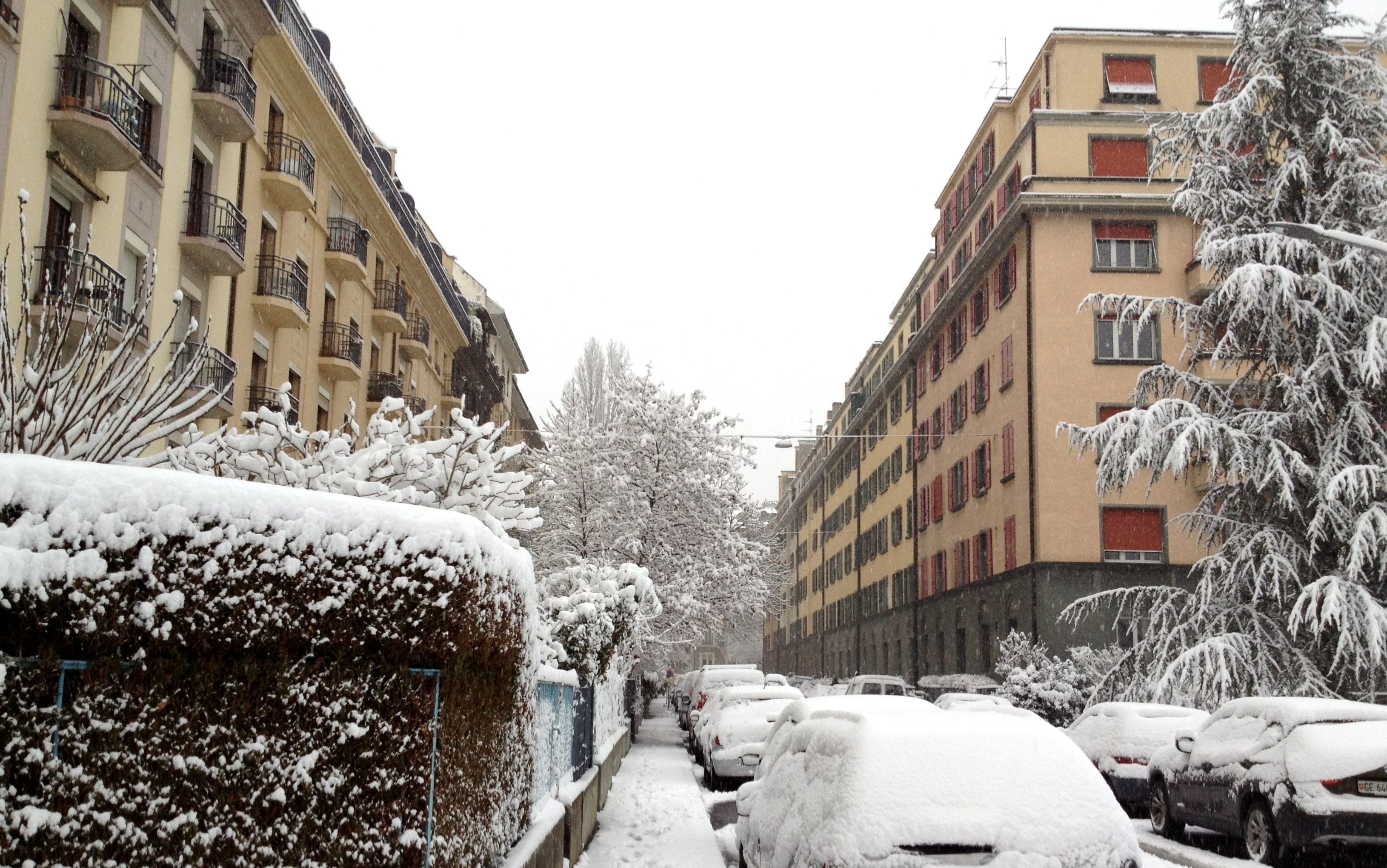 Ermenonville Street in St-Jean, Geneva